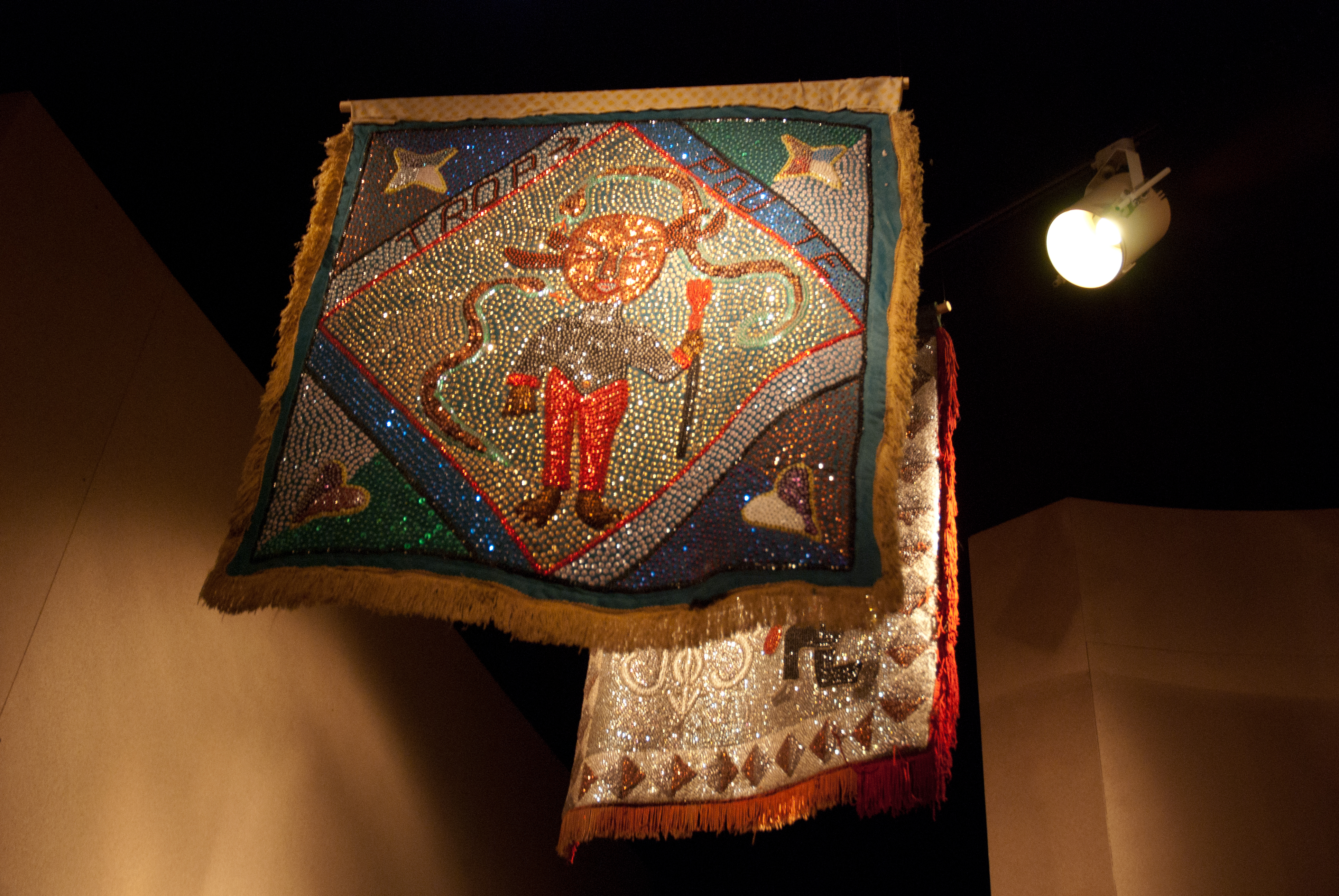 Haitian Vodou banners, the front one reads "Trop Pou Te" in Haitian Creole, on exhibit at the Ethnological Museum of Berlin, Germany